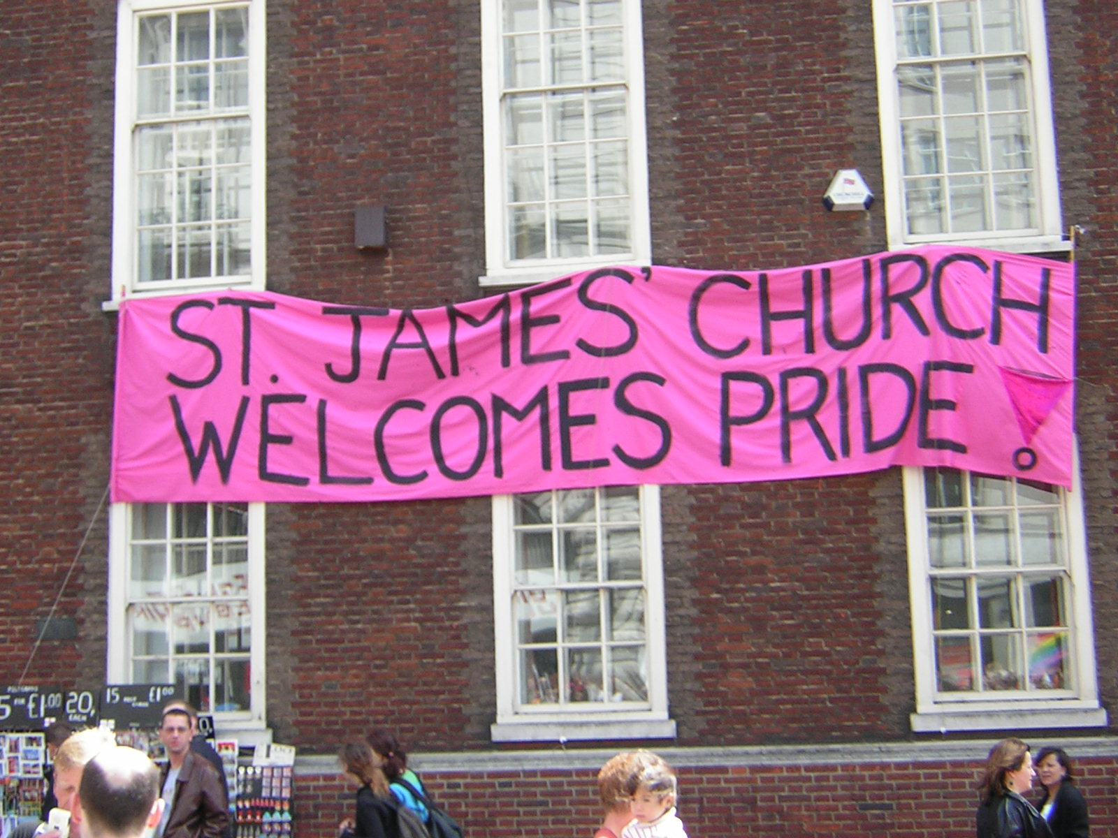 London Gay Pride, 03.07.2004. St James church (Anglican) on Piccadilly in London.